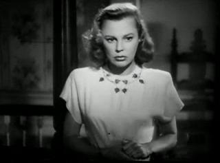 Cropped screenshot of June Allyson from the trailer for the film The Secret Heart